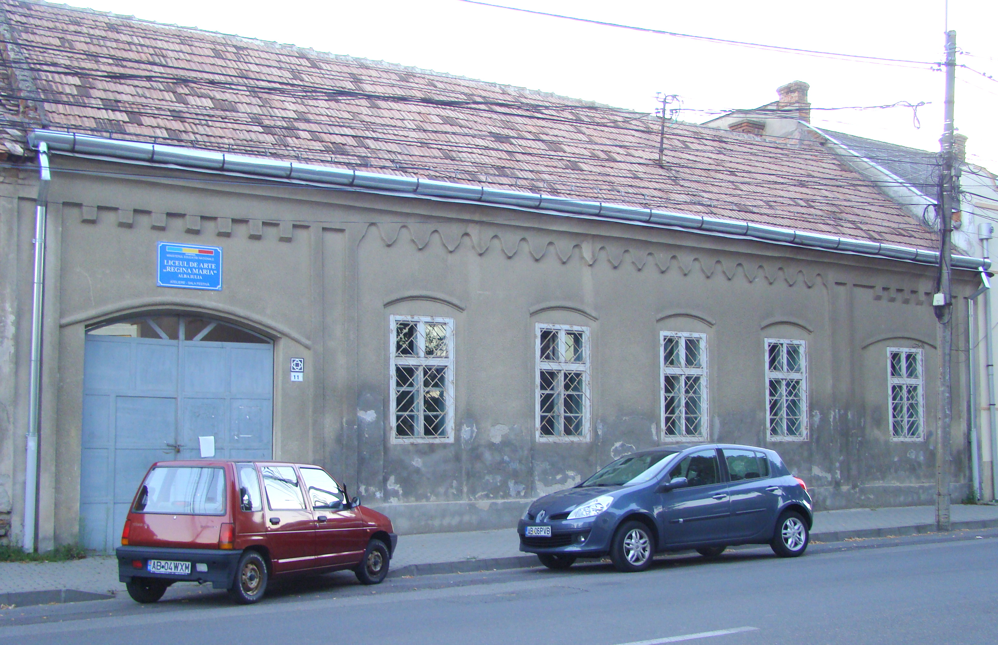 House, historic monument, Teilor street, number 11, Alba Iulia, Alba county, Romania